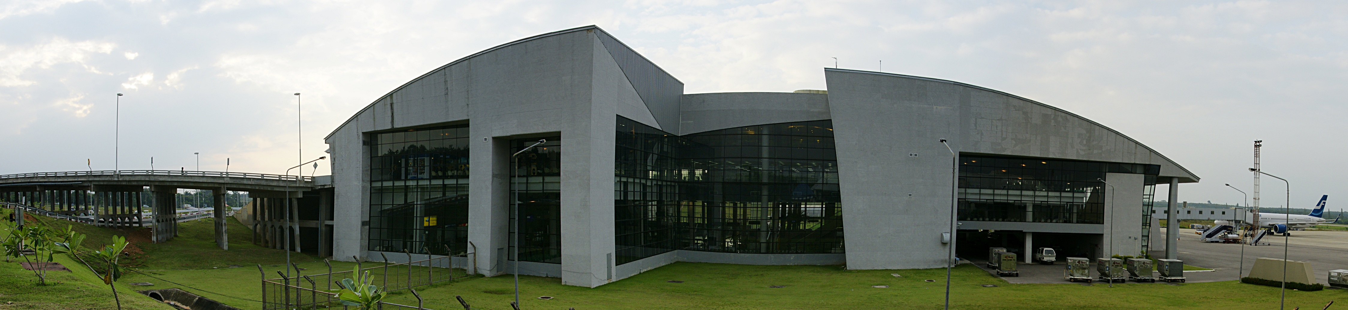 Krabi International Airport Building